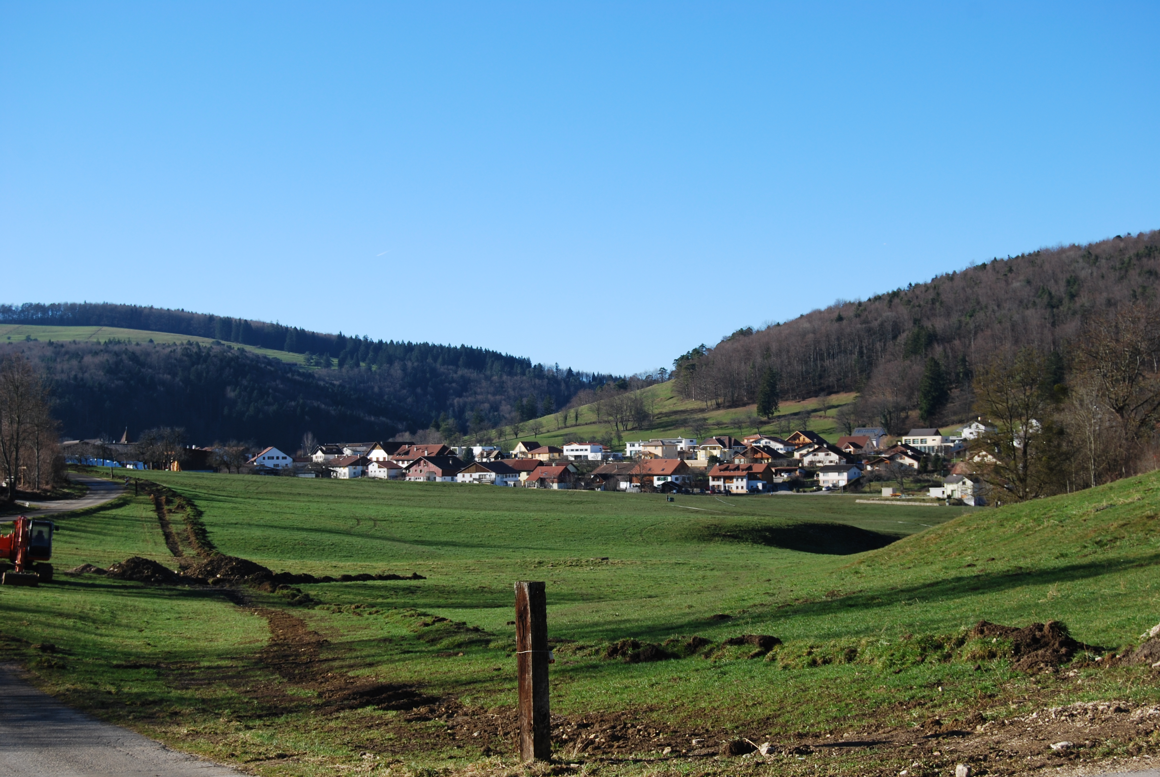 Rebeuvelier, canton of Jura, SwitzerlandEsperanto: Rebeuvelier, Kantono Ĵuraso, Svislando